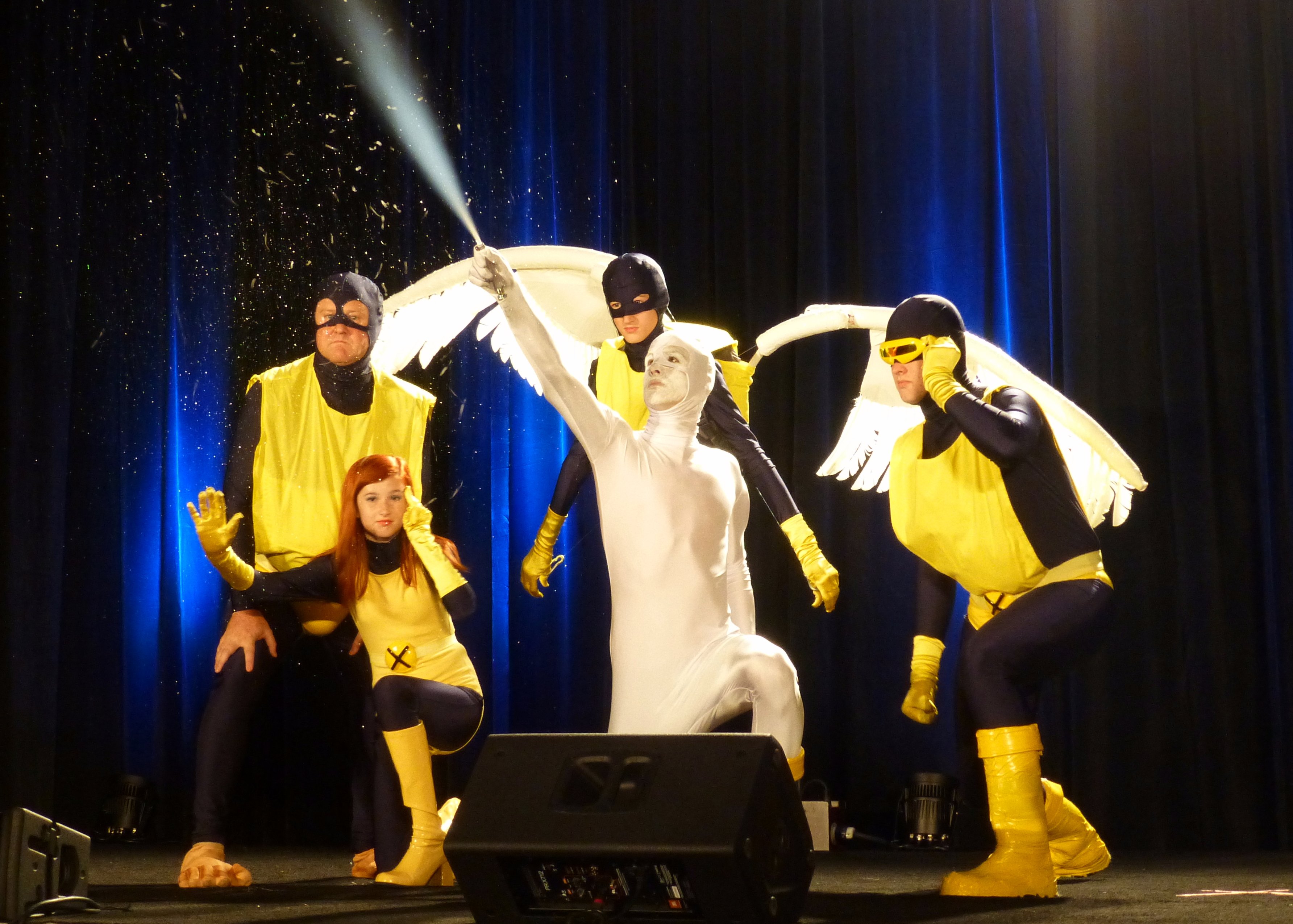 Retro X-Men. Got lucky with the timing as he was shooting some confetti Costume contest at the 2015 Wizard World Chicago.